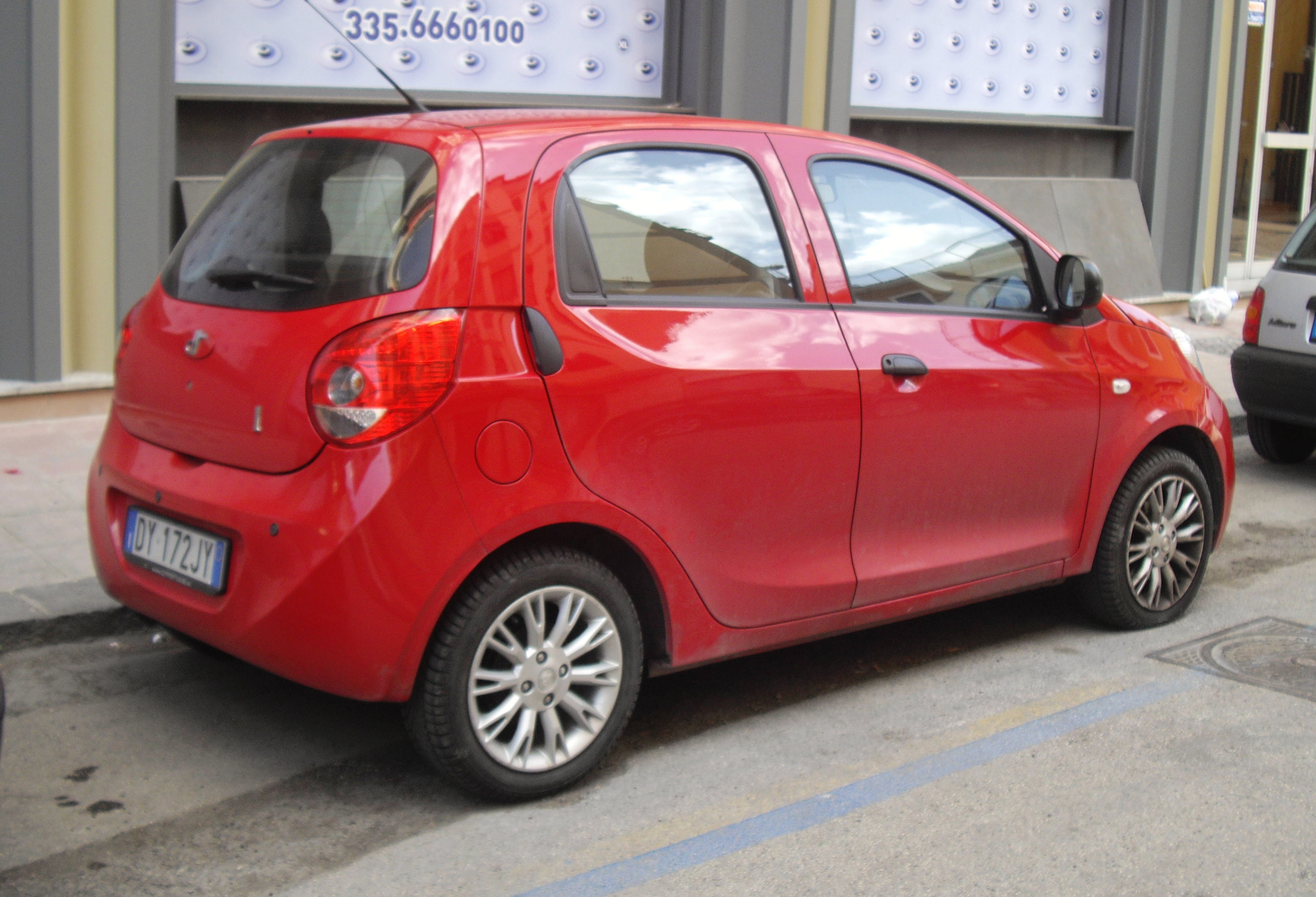 DR1 in Avellino rear